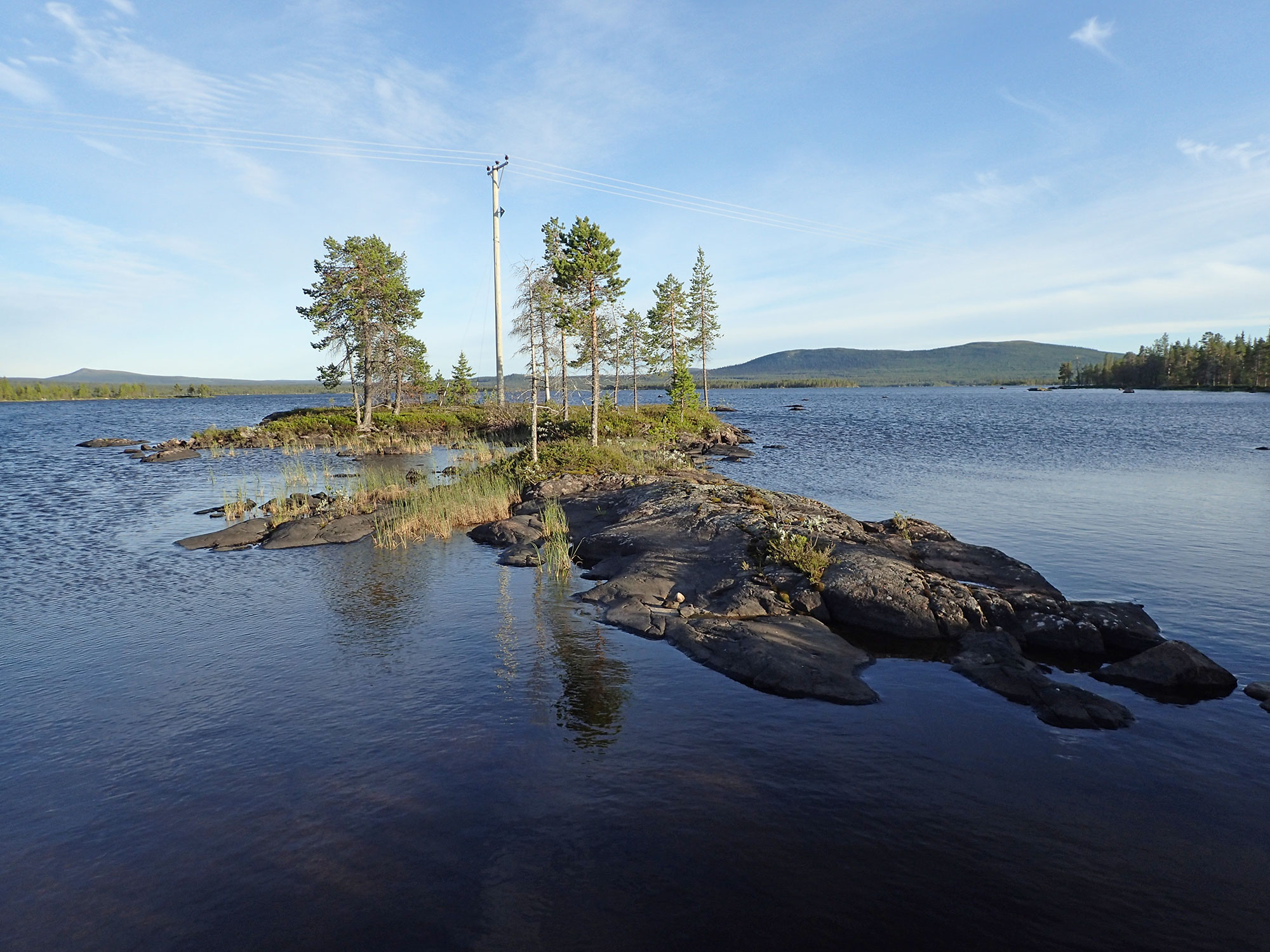 Lake Lill-Mattaure viewed from the north.